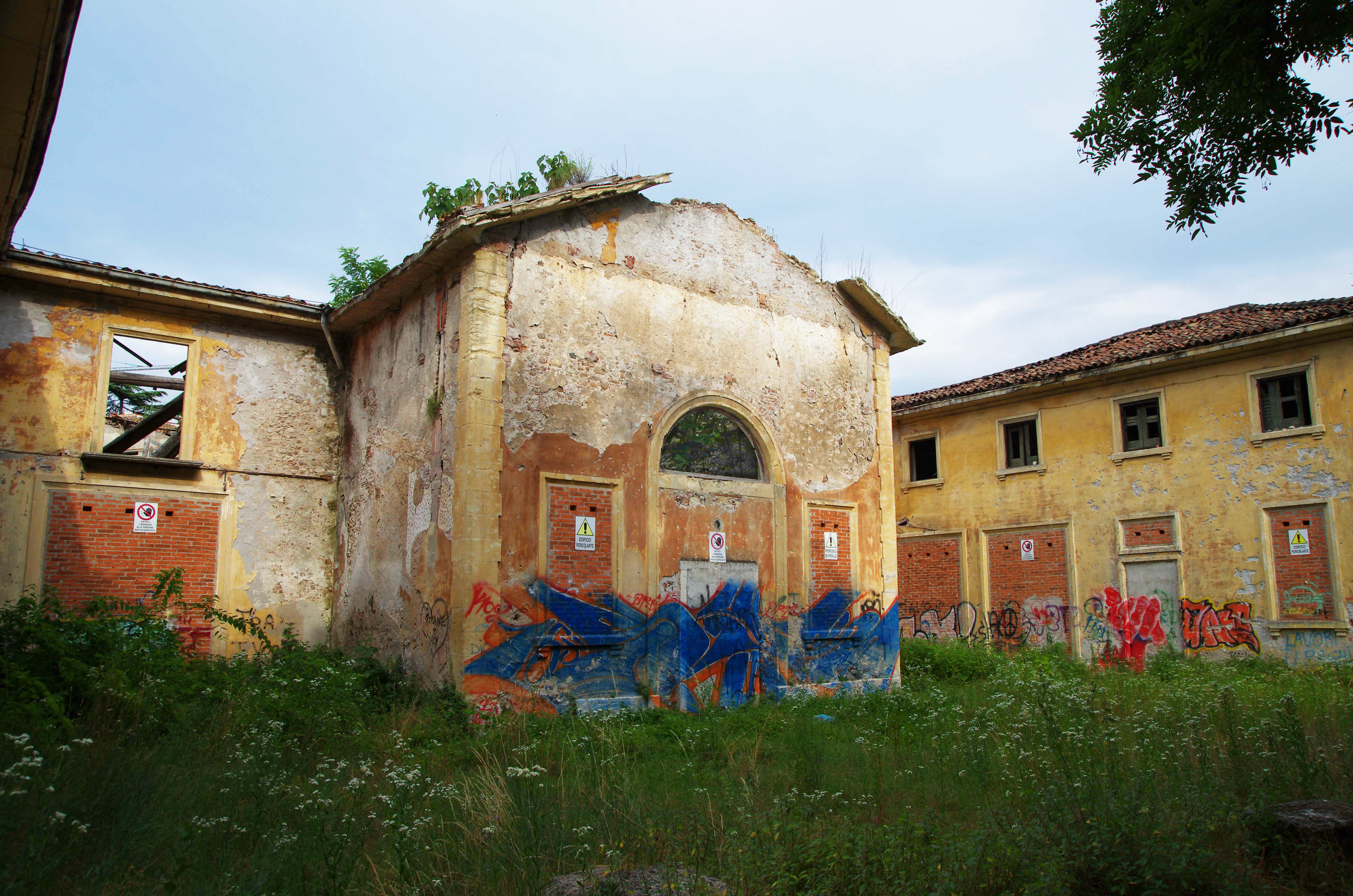 Typical example of mismanagement of the Italian cultural heritage, now being restored after decades of neglect